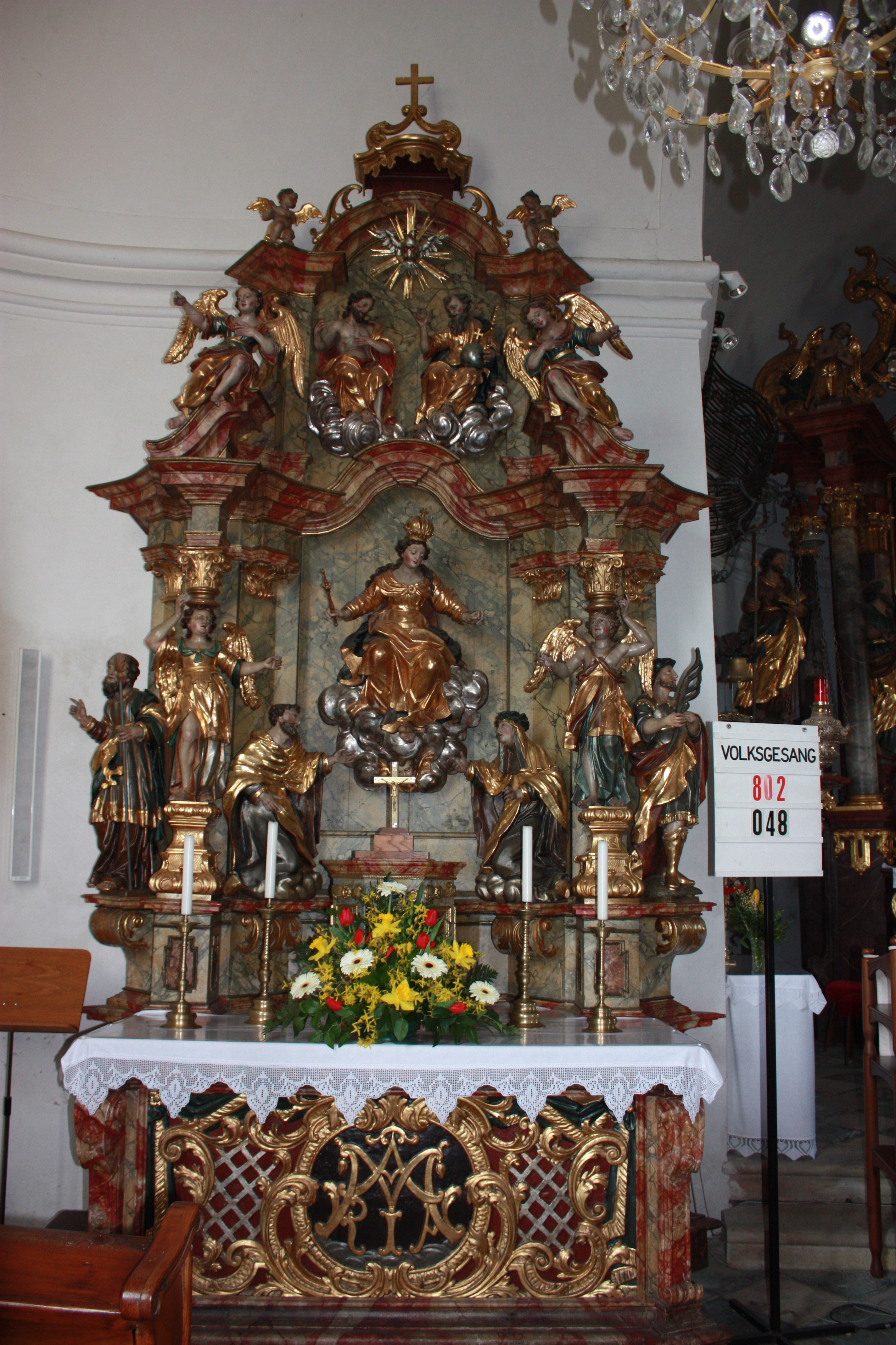 Parish church Conversion of Paul - Altar of Mary Locality:Kappel Community:Kappel am Krappfeld